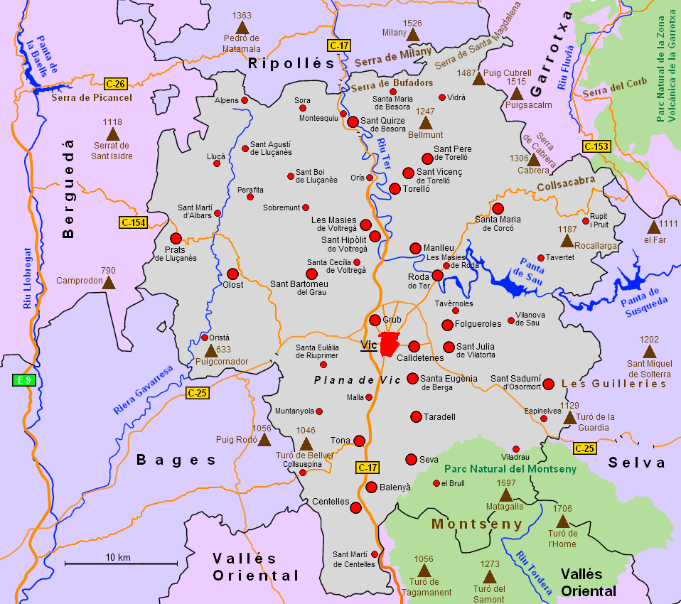 Map of the comarca Osona, Catalonia, Spain